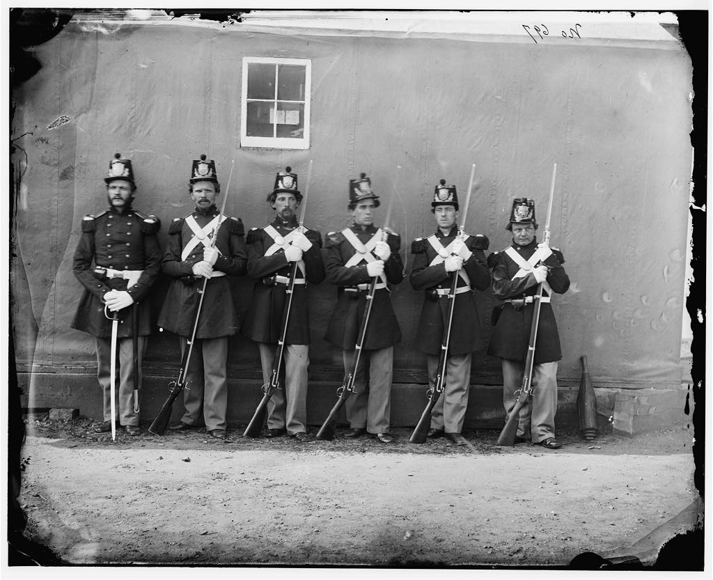 Washington, D.C. Six marines with fixed bayonets at the Navy Yard. Photographs of the Federal Navy, and seaborne expeditions against the Atlantic Coast of the Confederacy -- the Federal Navy, 1861-1865.